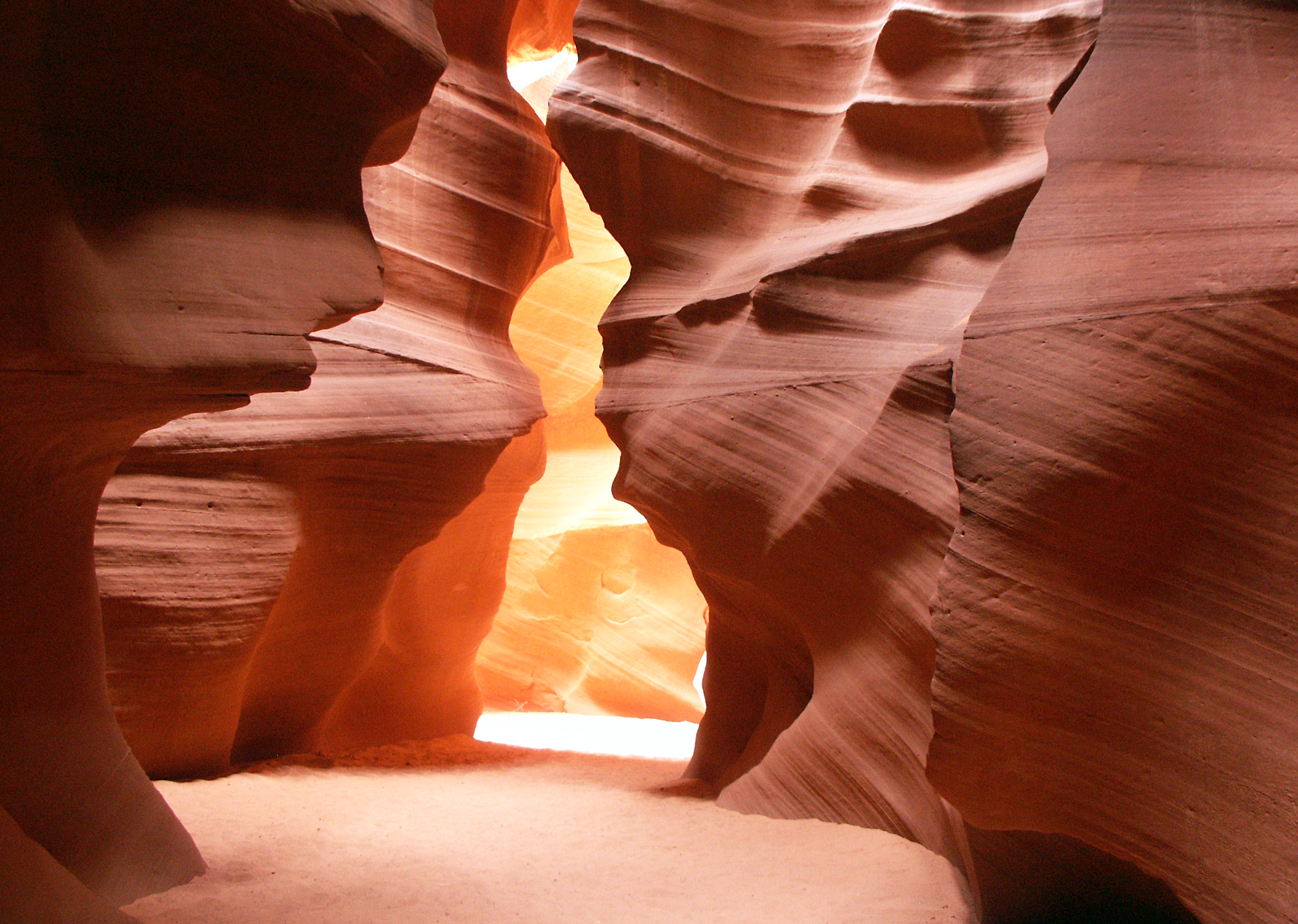 Antelope Canyon, Navajo Tribal Park, Arizona, USA.